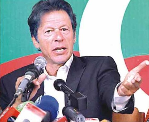 21 November, 2013 - Imran Khan during a press conference in Islamabad. Imran Khan vowed to block NATO Pakistan Supply Route over drones. He seek an end to drone strikes.